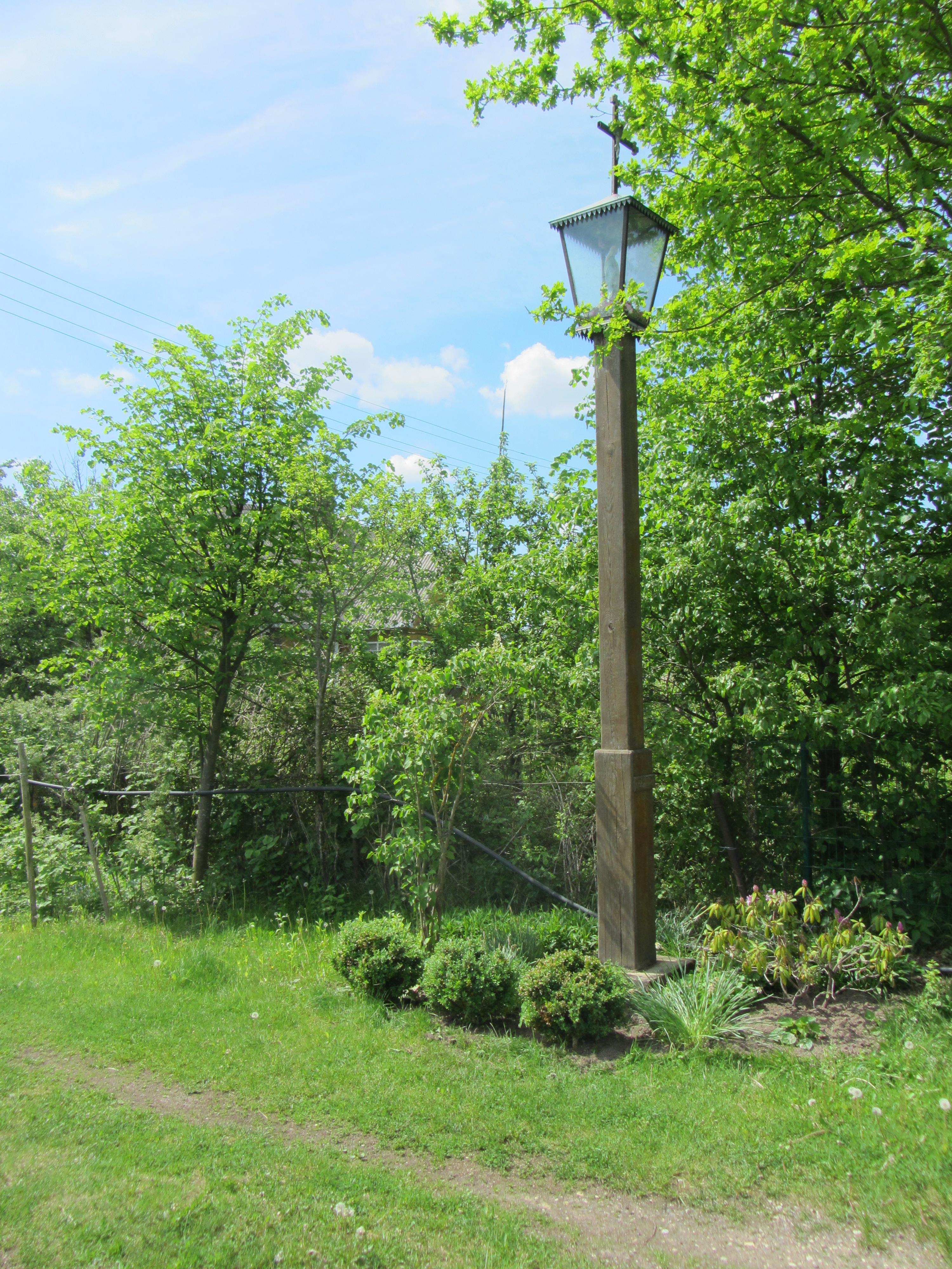 Arnionys I, Lithuania